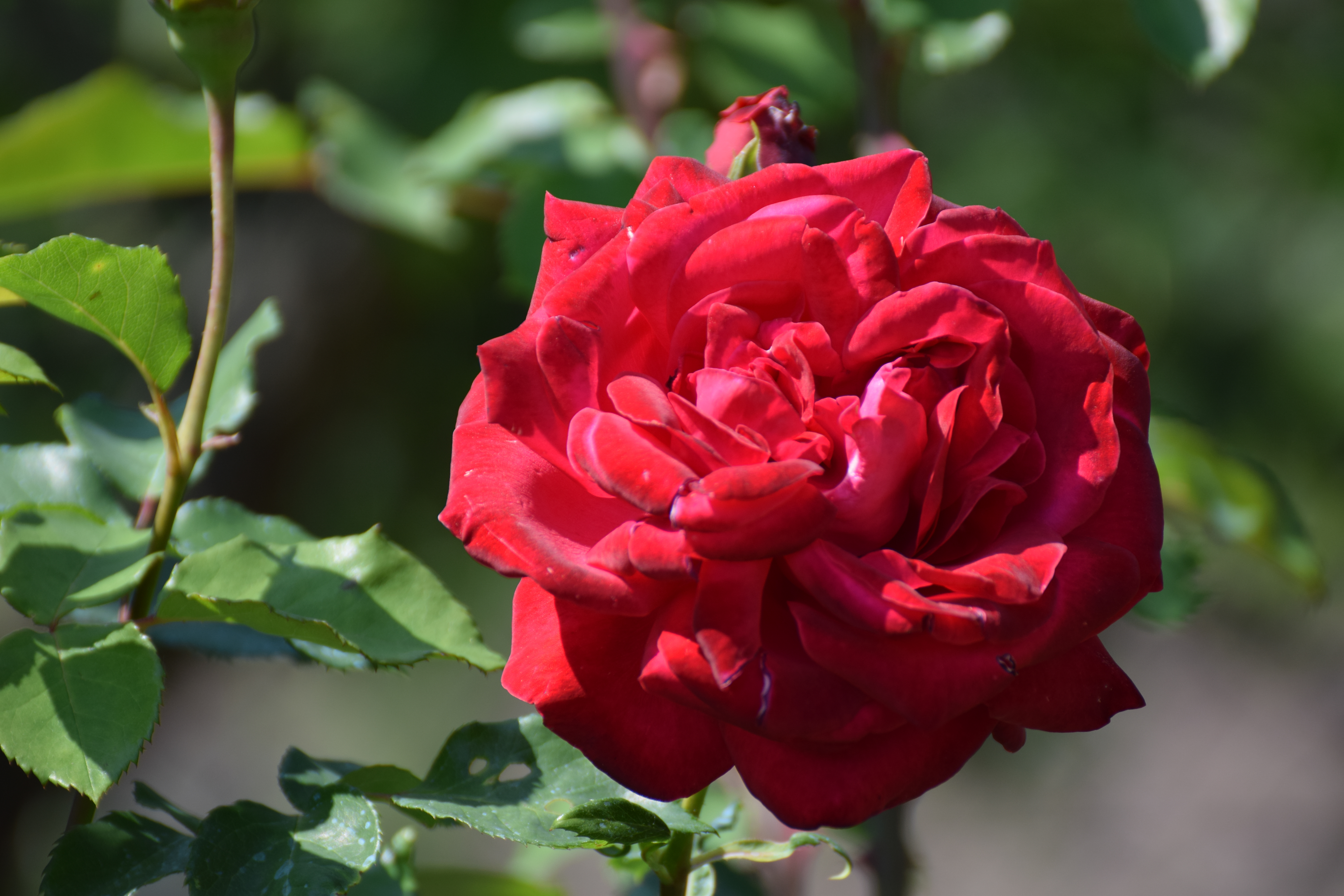 a red rose